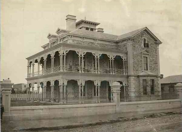 'Essenside' at Glenelg - View of Edward M. (Ned) Bagot's home 'Essenside', on the northern corner of Moseley and College Streets, Glenelg. Bagot acquired the land in 1868 and erected an eight-roomed house on the site. Financial difficulties forced him to sell the house in 1876; it was acquired by Andrew Tennant in 1877 who made significant extensions to the original building. It was demolished in 1972.